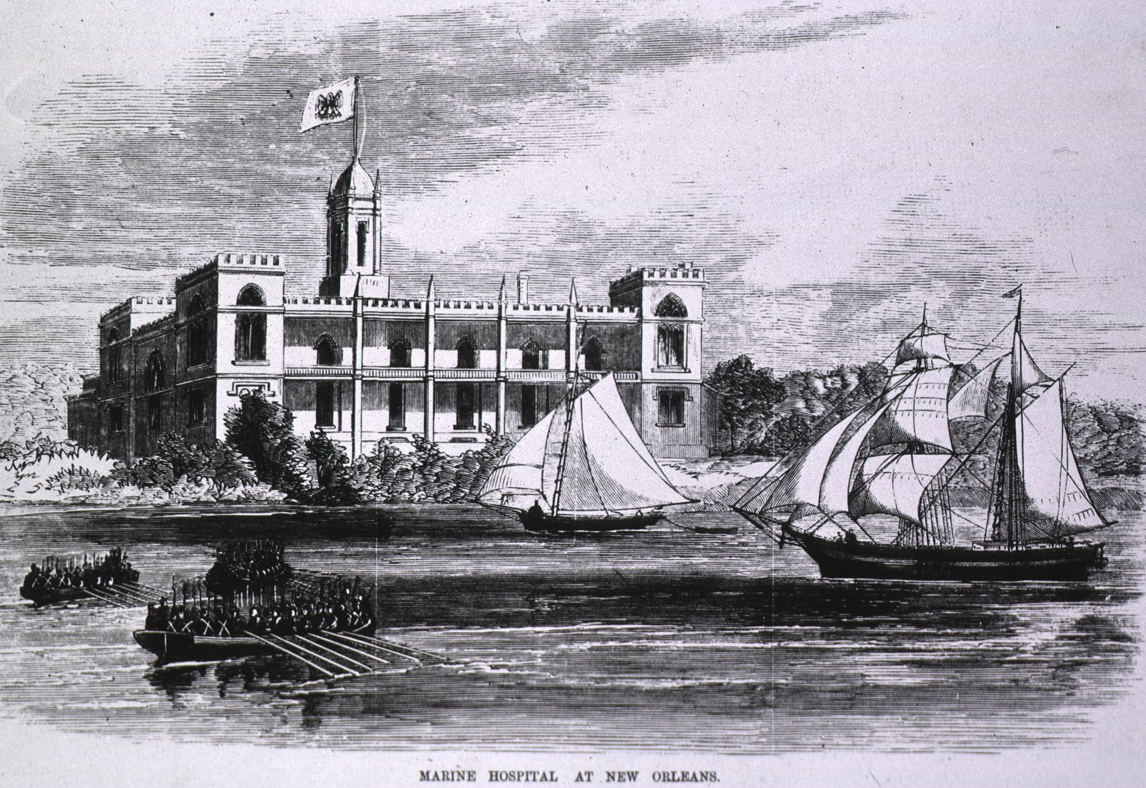 "Marine Hospital at New Orleans". Engraving showing old Marine Hospital building on the West Bank of the Mississippi River. Likely shows action during the American Civil War, either being occupied by Confederate forces in 1861 or Union forces the following year. Note boats appear to be filled with troops; flag of Louisiana flying over tower.